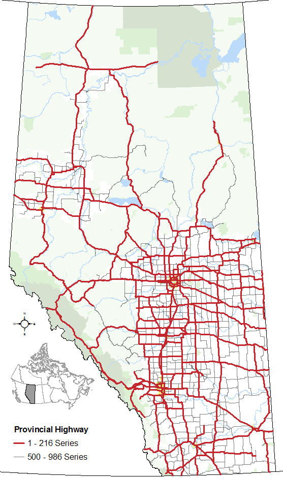 The alignments of the 1 - 216 series of highways within Alberta's provincial highway system within other base features including hydrography, national/provincial parks, cities and city equivalents, and the provincial green and white zones.